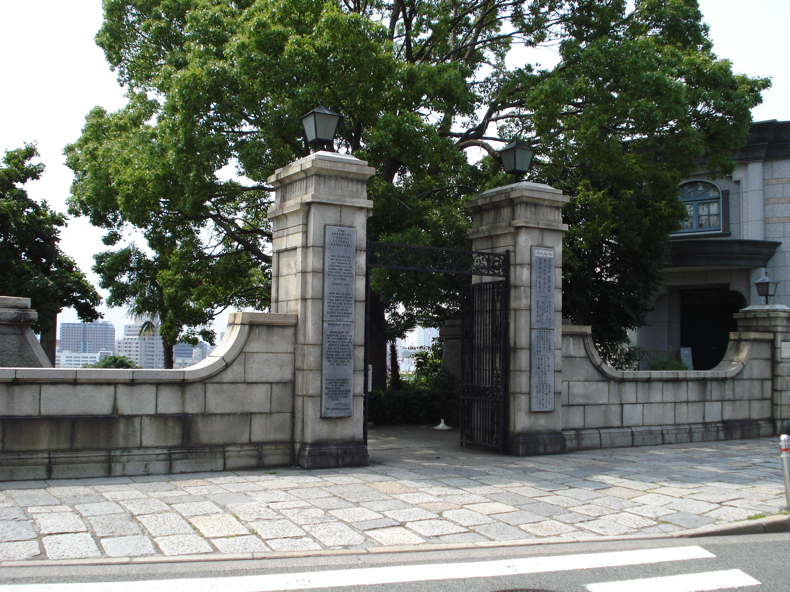 Entrance to the Yokohama Foreign General Cemetery (Gaijin Bochi) in Naka-ku, Yokohama, Japan